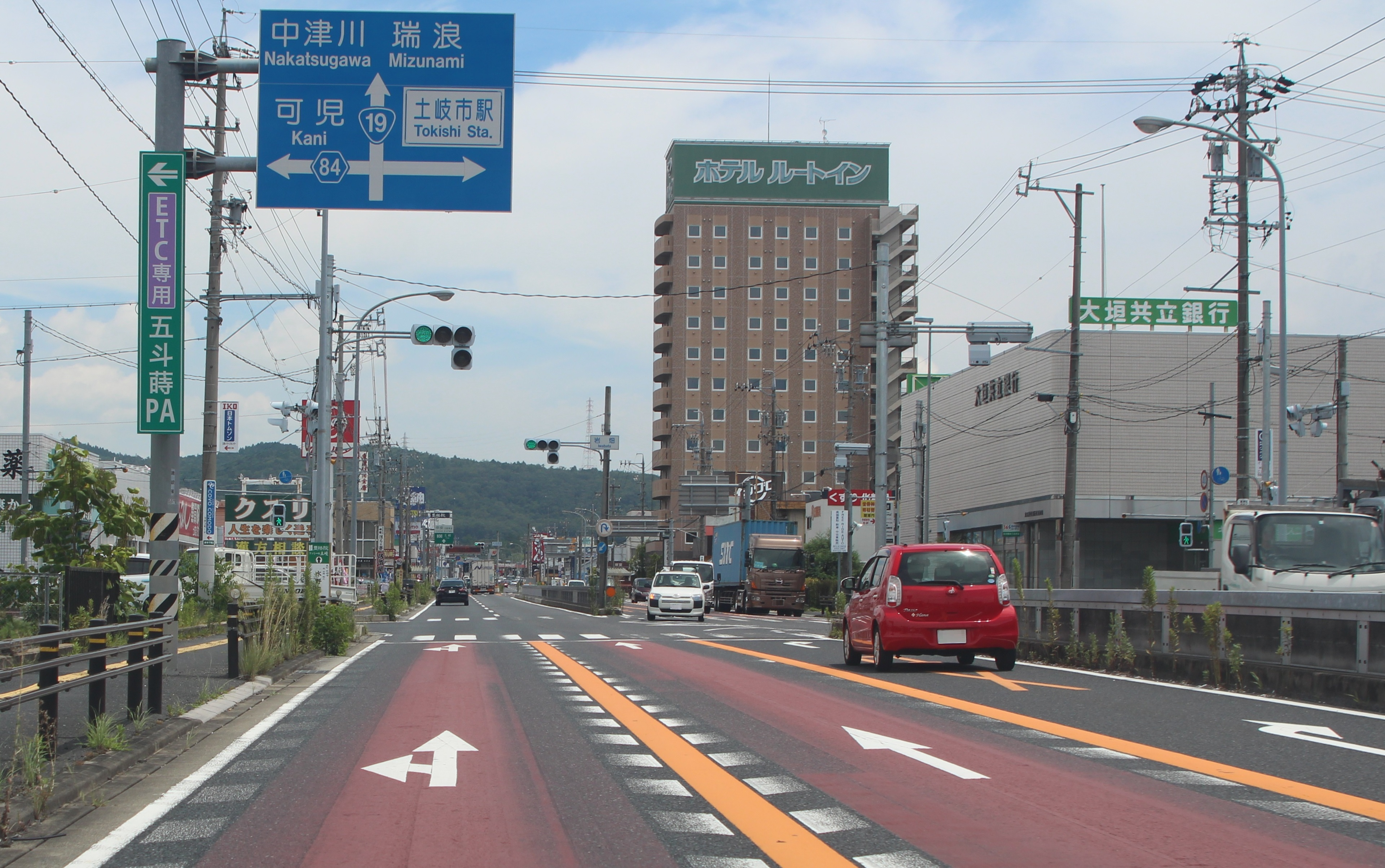 Route 19 and Gifu Prefectural Road Route 84 in Izumiterachitacho, Toki, Gifu Prefecture, Japan.